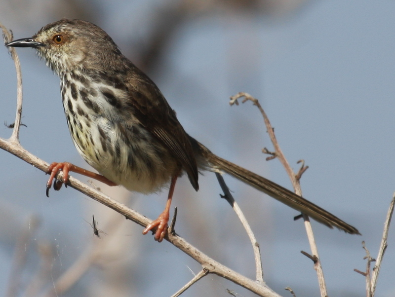 A Karoo Prinia at Rooisands Nature Reserve, near Bot River Lagoon, South Africa.